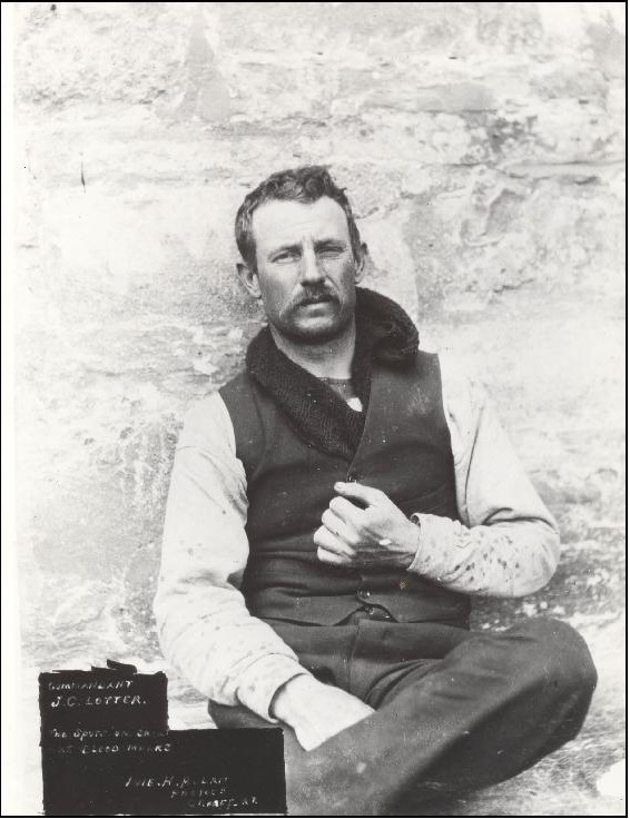 Commandant Hans Lotter in Graaff-Reinet prison. Blood Spatter can be seen on his shirt.